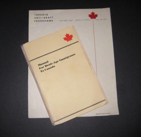 The Manual for Draft-Age Immigrants to Canada (1968) was conceived, written, and edited by Mark Satin when he was executive director of the Toronto Anti-Draft Programme. A well-used copy of the second edition - the largest, with a print run of 20,000 - is shown here atop Programme stationery. The publisher, Toronto's House of Anansi Press, claims nearly 100,000 copies were sold during the Vietnam War. According to sociologist John Hagan, the Manual was used by more than half of all Vietnam War resisters in Canada (see Hagan, Northern Passage, 2001, pp. 77-78).